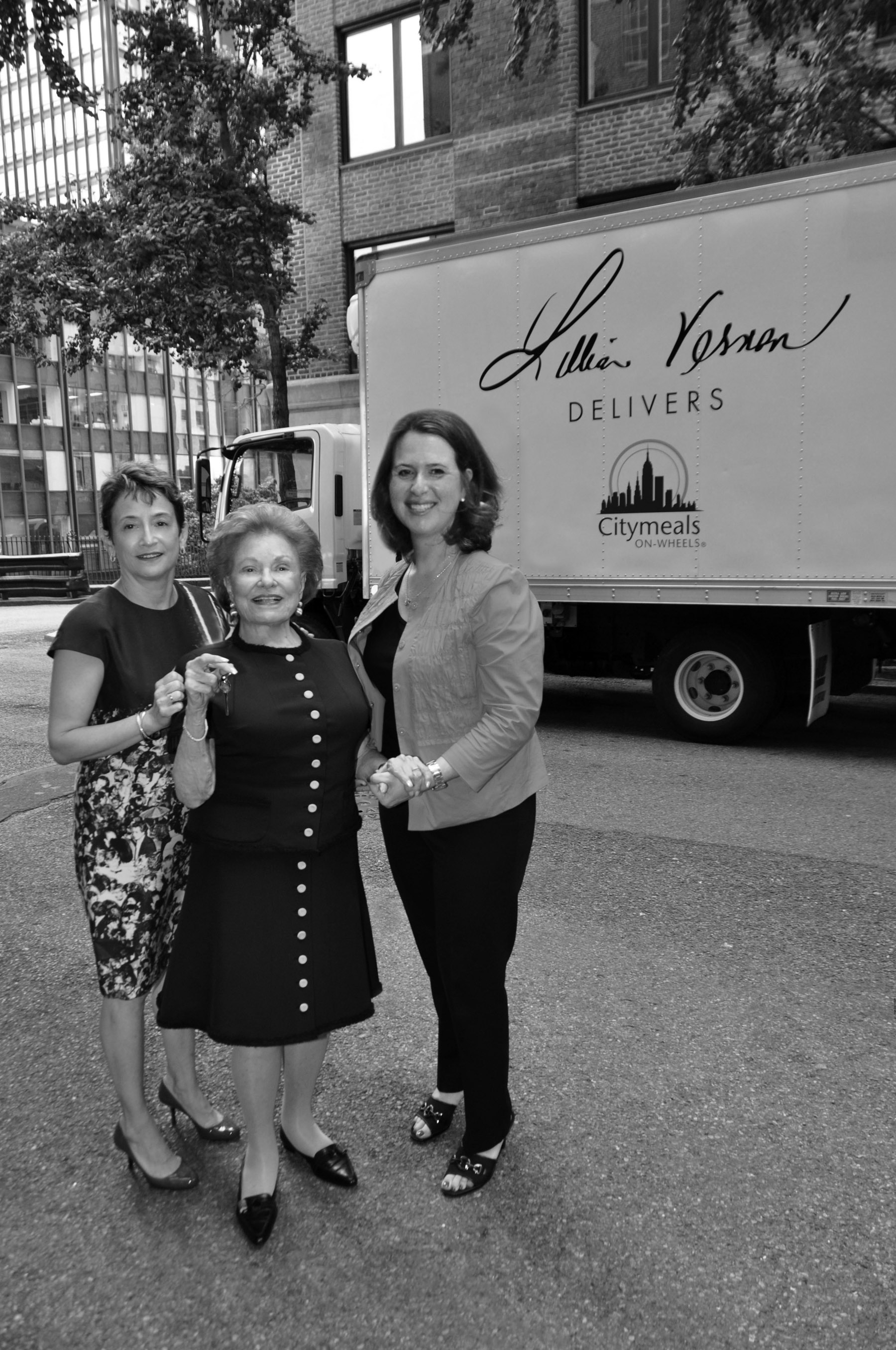 Lillian Vernon, Citymeals-on-Wheels board member, donates a refrigerated truck to the charity.